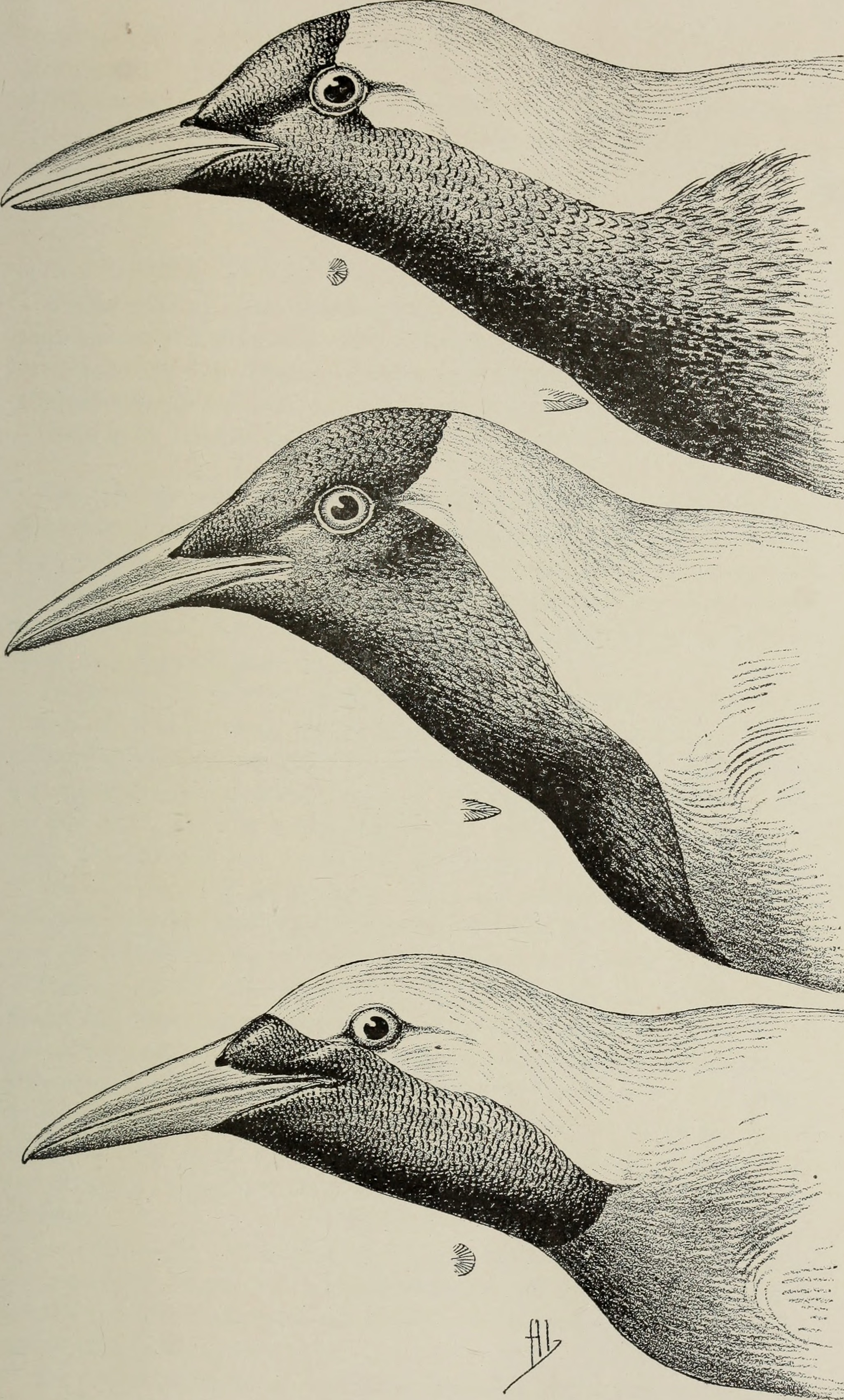 Title: Bulletin du Muséum d'histoire naturelle Year: 1895 (1890s) Authors: Muséum national d'histoire naturelle (Paris) Subjects: Natural history Publisher: Paris : Impr. nationale Text Appearing Before Image: Muséum. — M. Menegaux. Pl. IV. Text Appearing After Image: 1. Paradisea Duivenbodei nov. sp. — 2. P. Giiilielmi Cab. 3. P. minor Shavv. (Réduction : i/5.) (La forme des plumes est indiquée au-dessous des figures.) 145